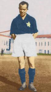 Alaattin Baydar, player of Fenerbahce. (1920s)